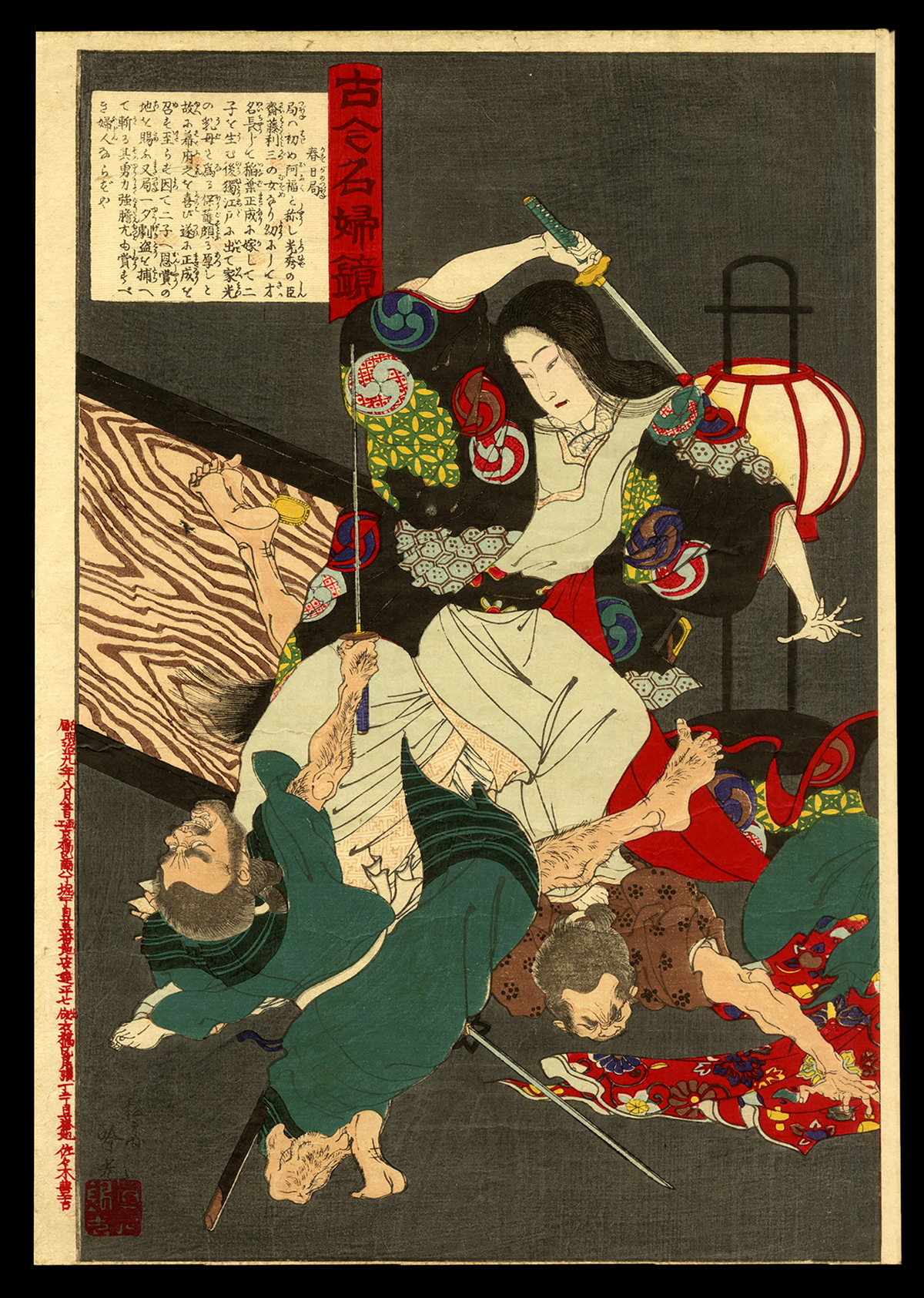 Lady Kasuga no Tsubone Fighting a Robber. From the series: "Mirror of the Famous Women in Today and in the Past."